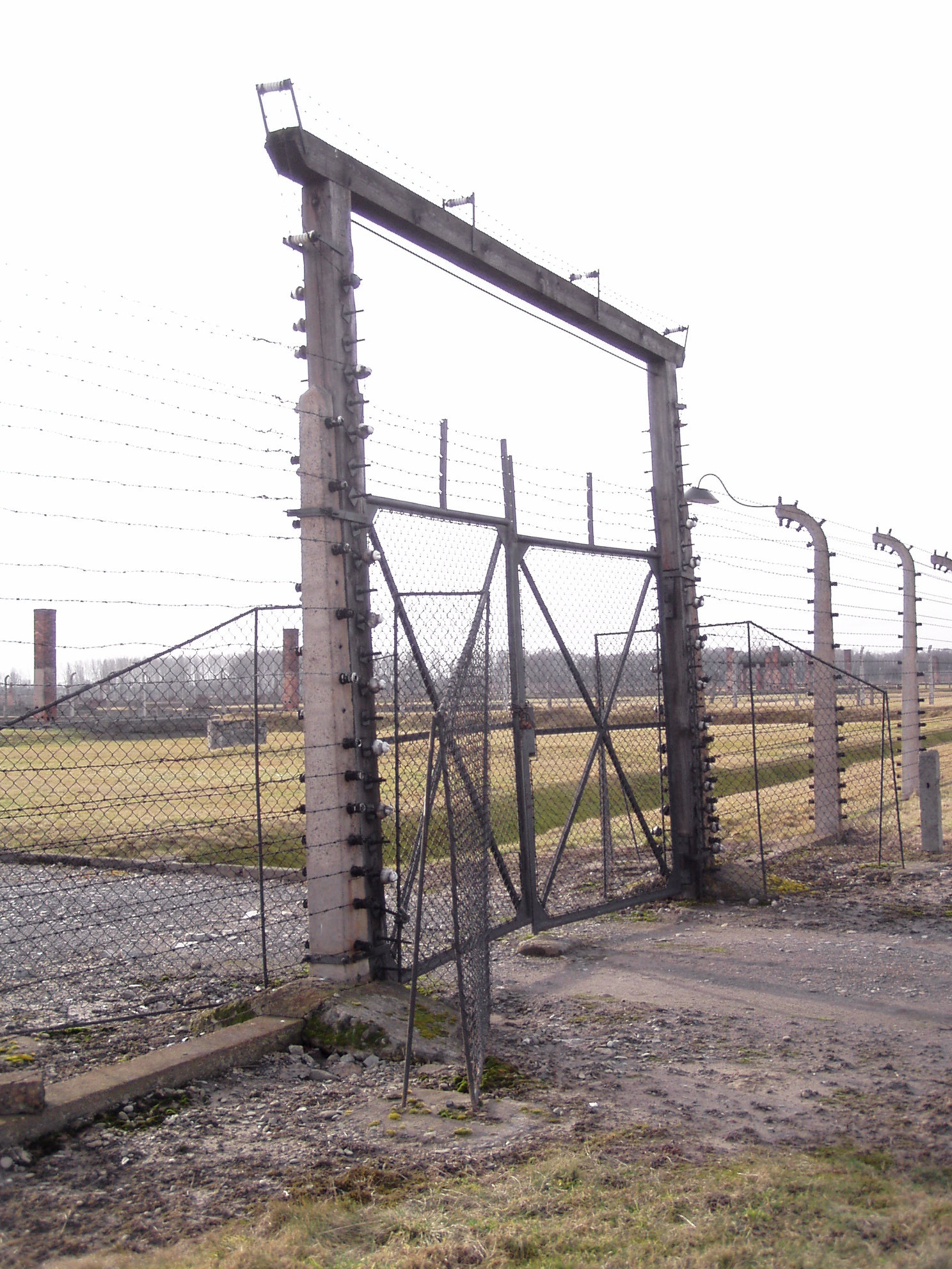 Gate to the section BIIb in the Birkenau camp Vstupní brána do úseku BIIb v Birkenau